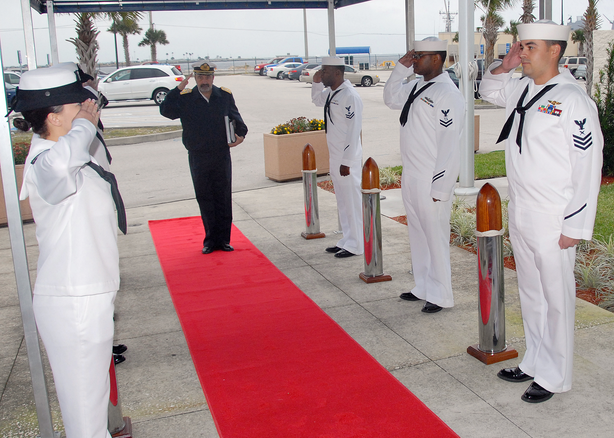 MAYPORT, Fla. (Nov. 4, 2008) Argentine navy Rear Adm. Jose Luis Perez Varela, Naval Attache' to the Argentine Embassy, arrives at U.S. Naval Forces Southern Command (NAVSO)/ U.S. 4th Fleet headquarters. Perez is visiting Mayport to help plan the UNITAS Gold 2009 Initial Planning Conference, the 50th iteration of the annual multi-national maritime exercise series. (U.S. Navy photo by Mass Communication Specialist 3rd Class Alan Gragg/Released)